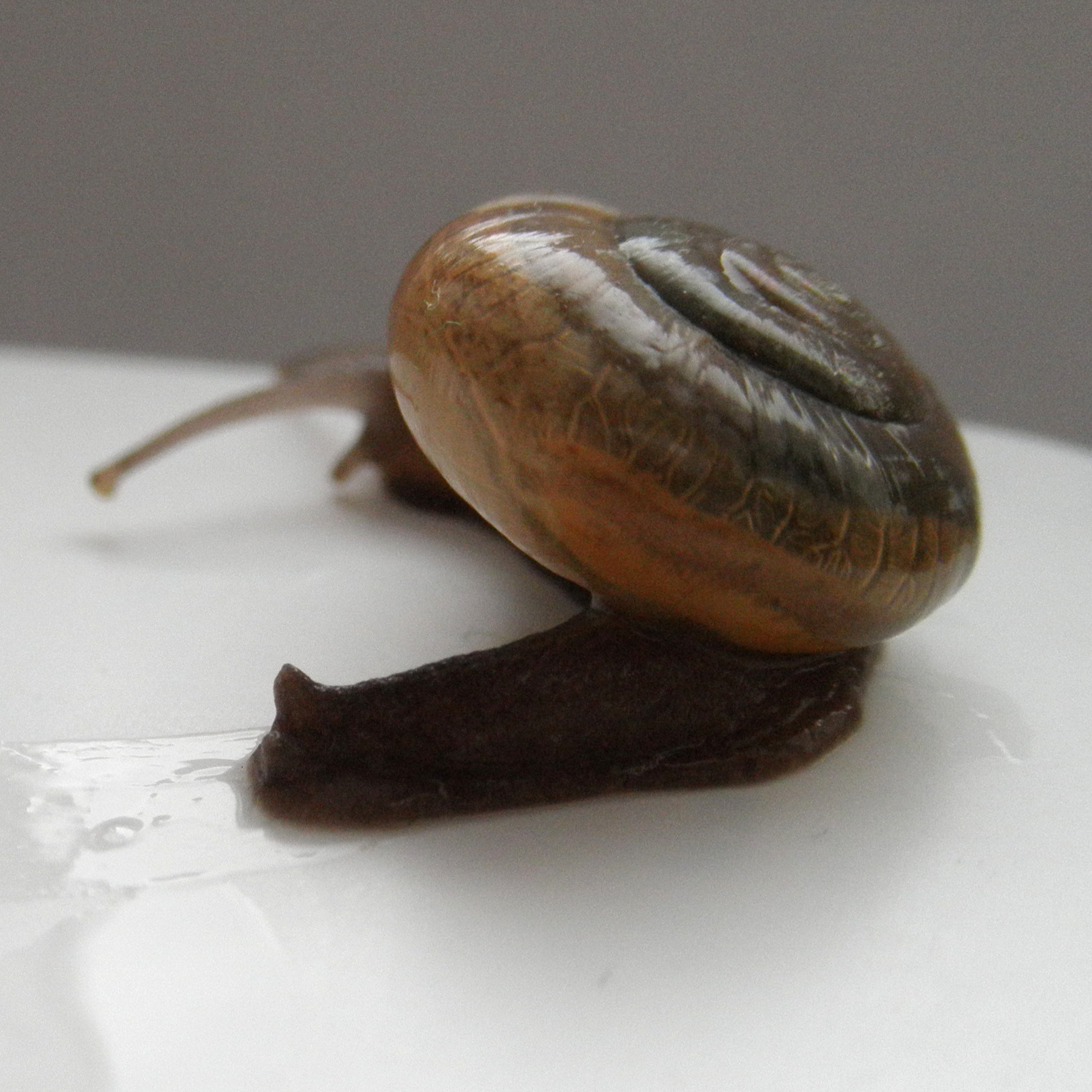 Photo of a rear side view of a live Macrochlamys amboinensis showing its caudal horn.